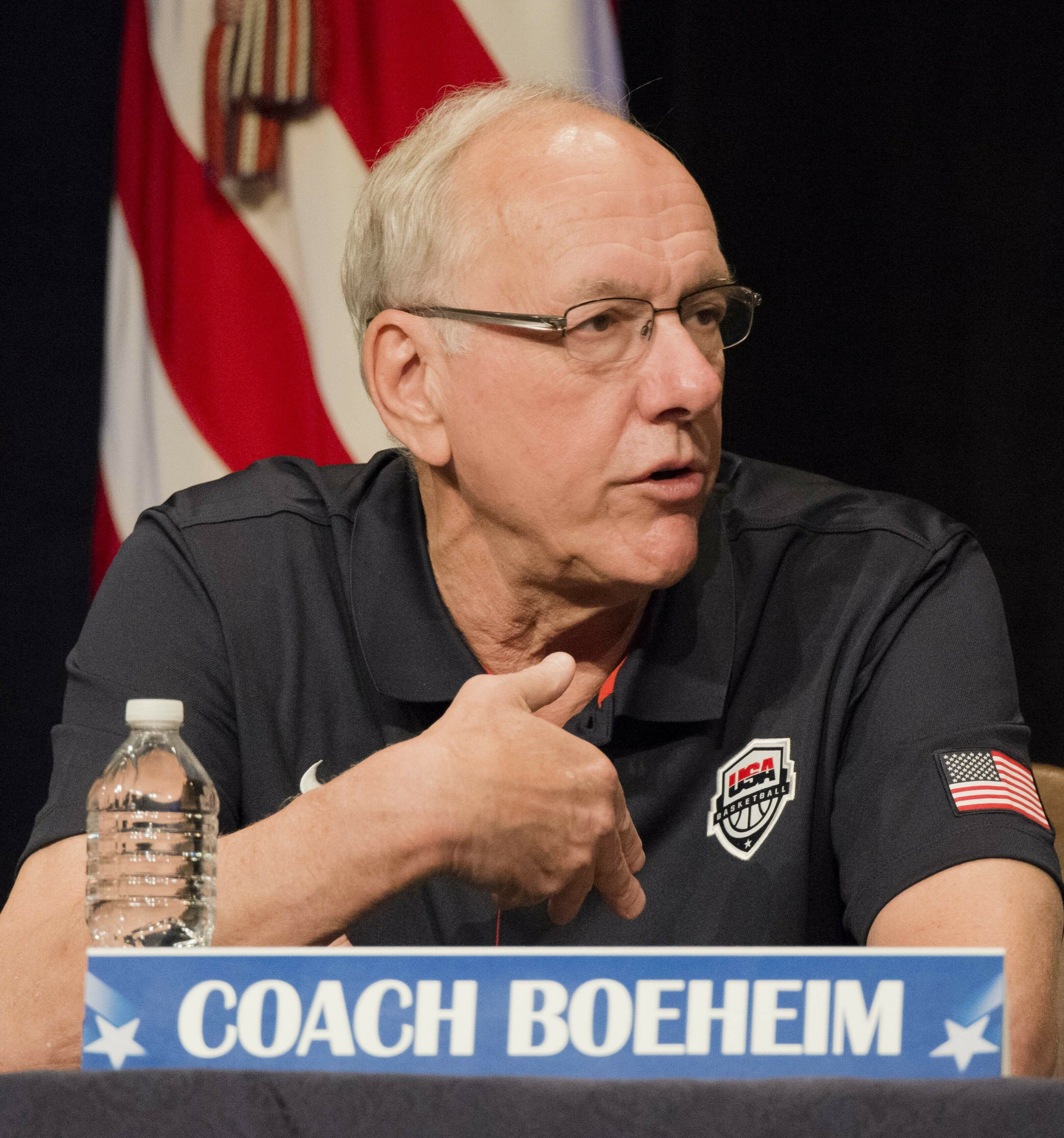 Jim Boeheim speaking at the Pentagon